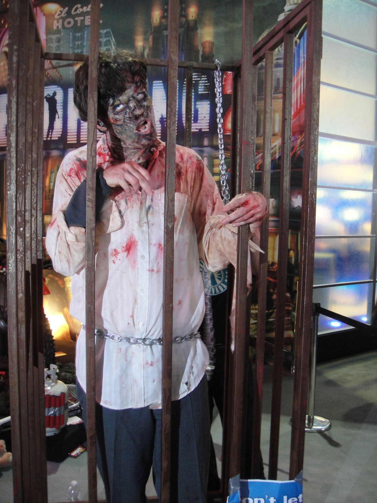 Taken on June 16, 2010 Dowtown Carrier Annex, Los Angeles, CA, US Sony DSC-T900